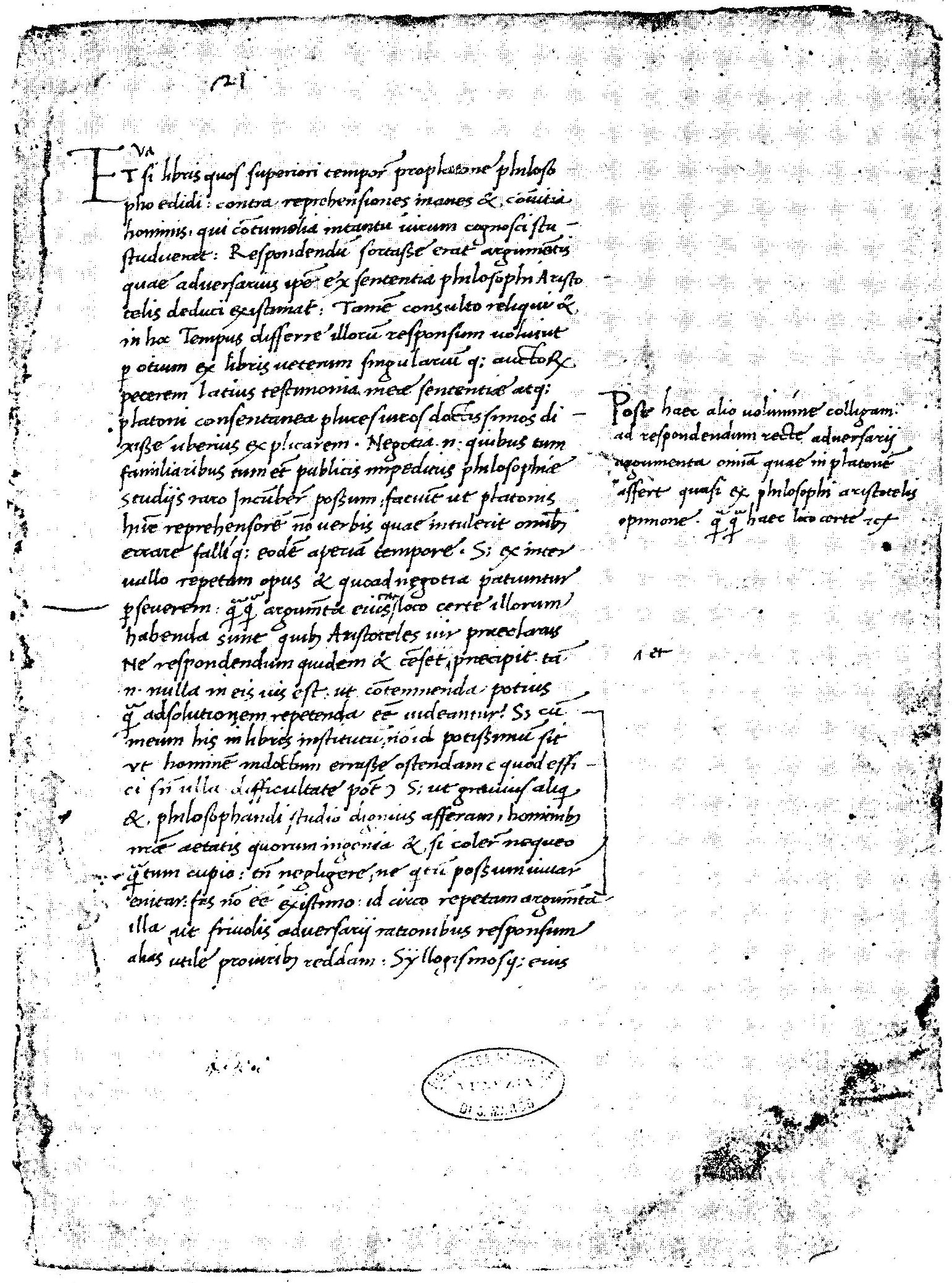 A page of Cardinal Bessarion’s In calumniatorem Platonis in the manuscript Venice, Biblioteca Nazionale Marciana, Lat. VI, 61 (= 2592), fol. 1r (autograph).